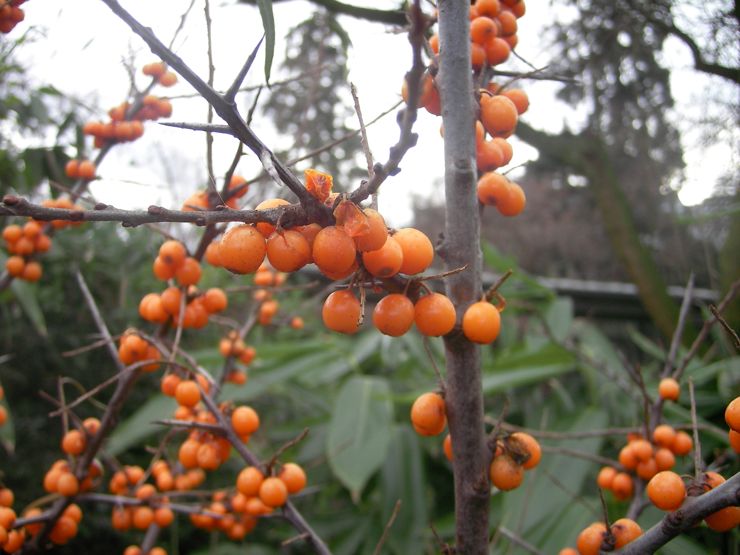 Hippophae rhamnoides